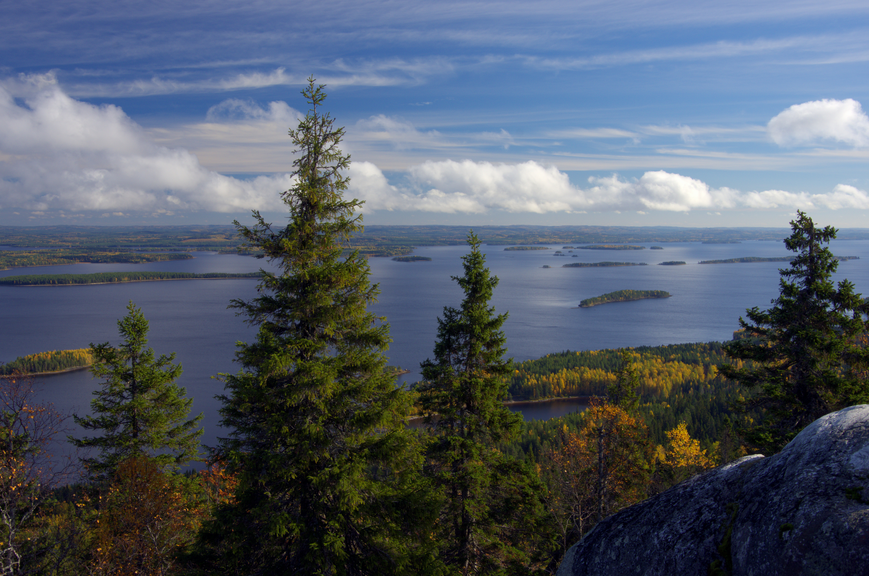 Scenery from Ukkokoli to lake Pielinen. Taken Oct 2011.